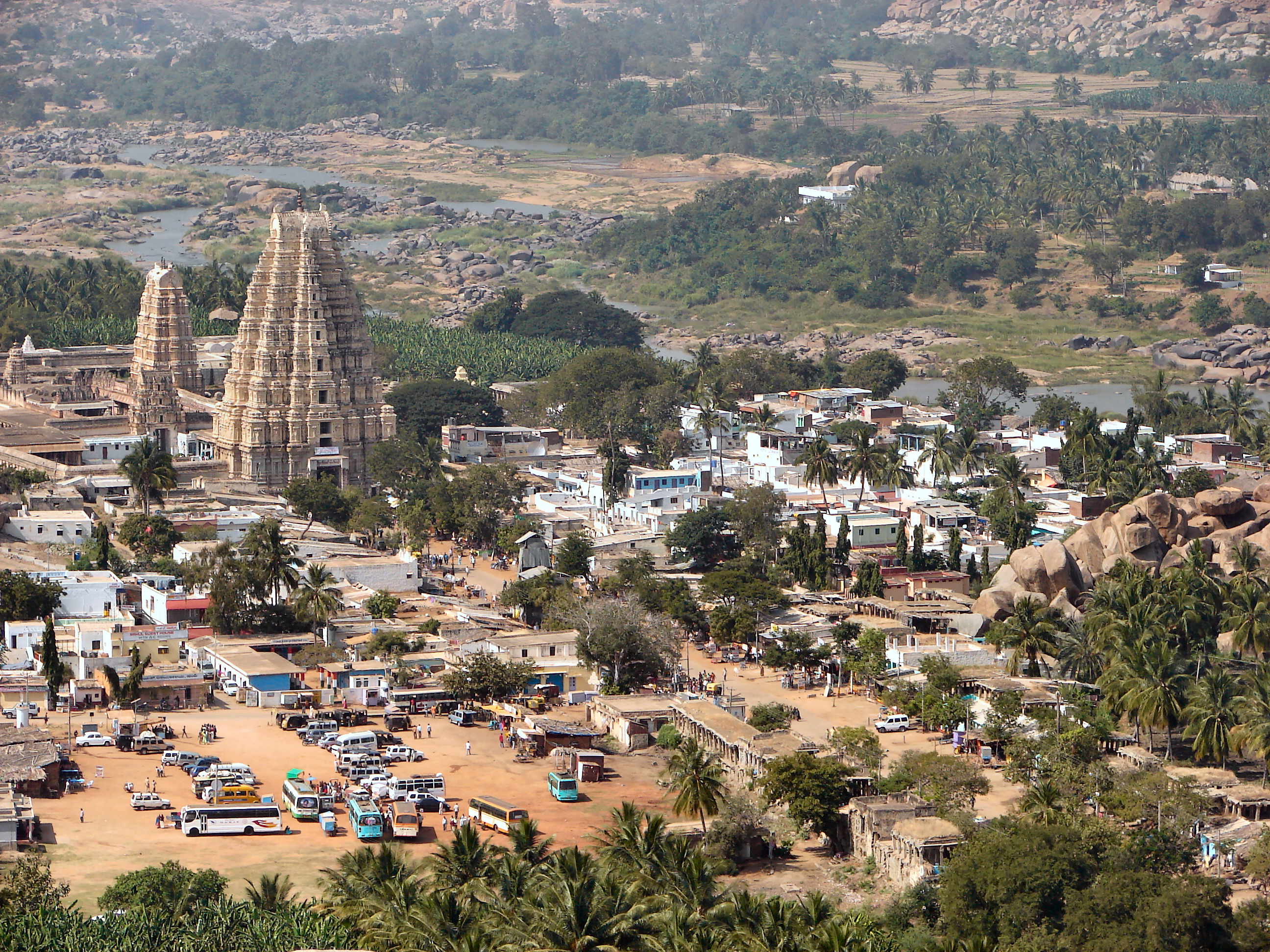 Modern day Hampi is a mix of the old Vijayanagara temples and monuments, and some rather basic new buildings. Tour buses arrive at the parking lot down to the left, and outside the temple gates there are large numbers of guesthouses, restaurants and souvenir shops. Behind the dwelling area there's a busy ghat by the riverside.